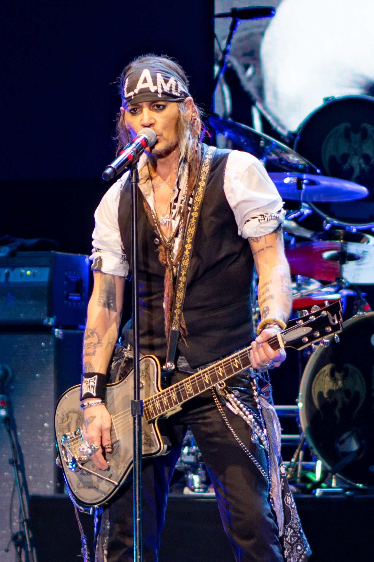 A cropped version of File:HollywoodVampsSSe200618-126 (42513694350).jpg